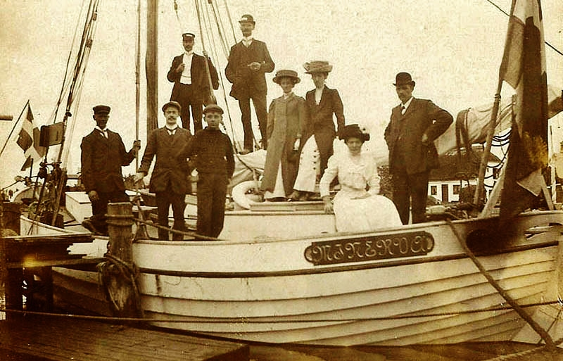 The well-smack MINERVA of Karrebæksminde in Southern Denmark, built in 1908.